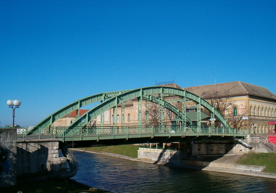 Small Bridge in January 2005